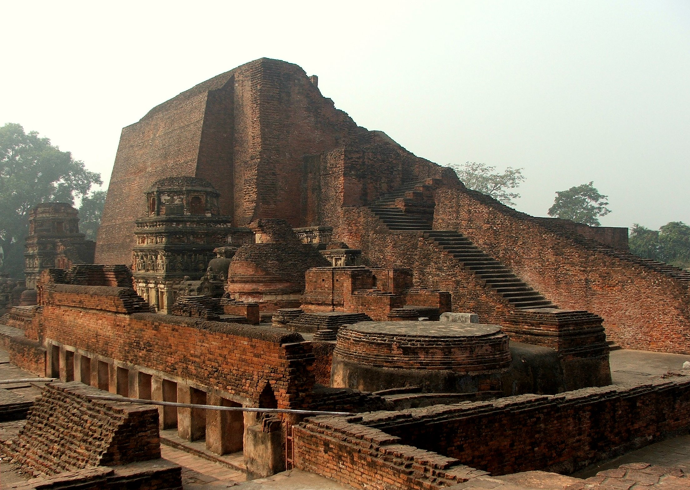 Main stupa of Sariputta in the ancient Nalanda University, Bihar, India.